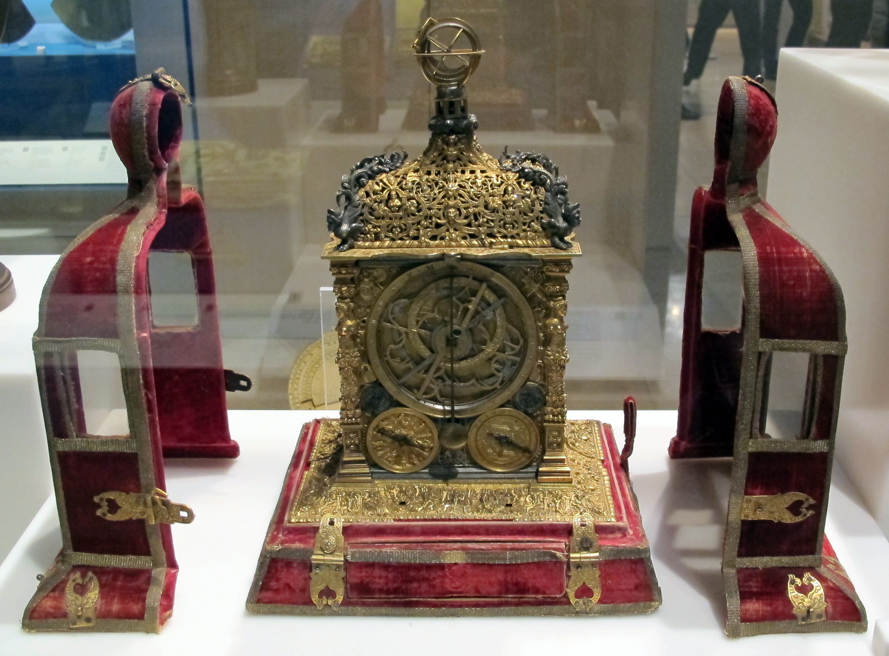 Astronomical clock.